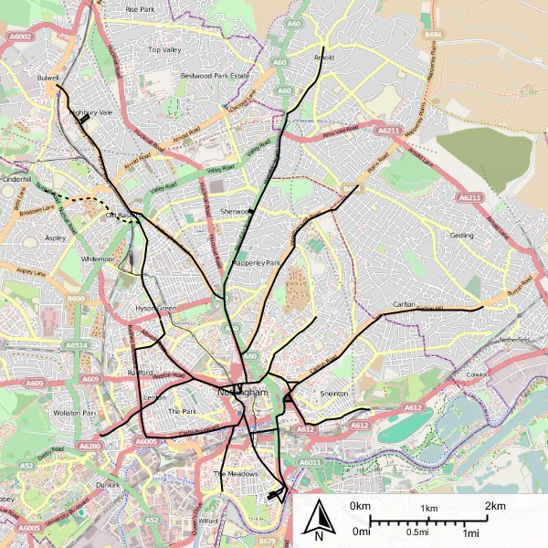 Map of the routes of Nottingham Corporation Tramways